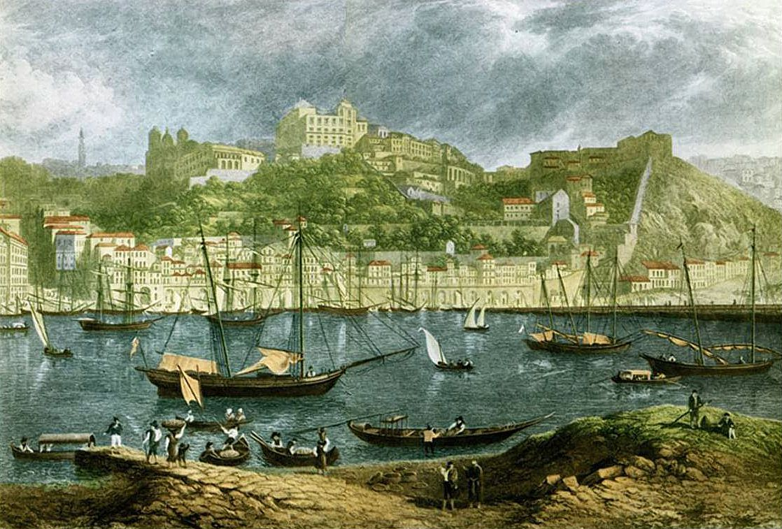 Oporto. From Filia Nova. Painted by Lieut. Col.Robert Batty. Engraved by William Miller (1796-1882)